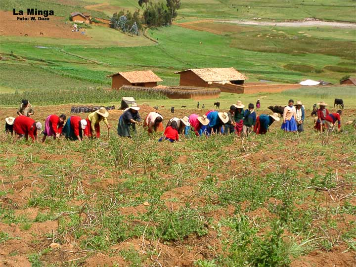 I, W. Daza, the author of this work, publish it under the following license (see below)